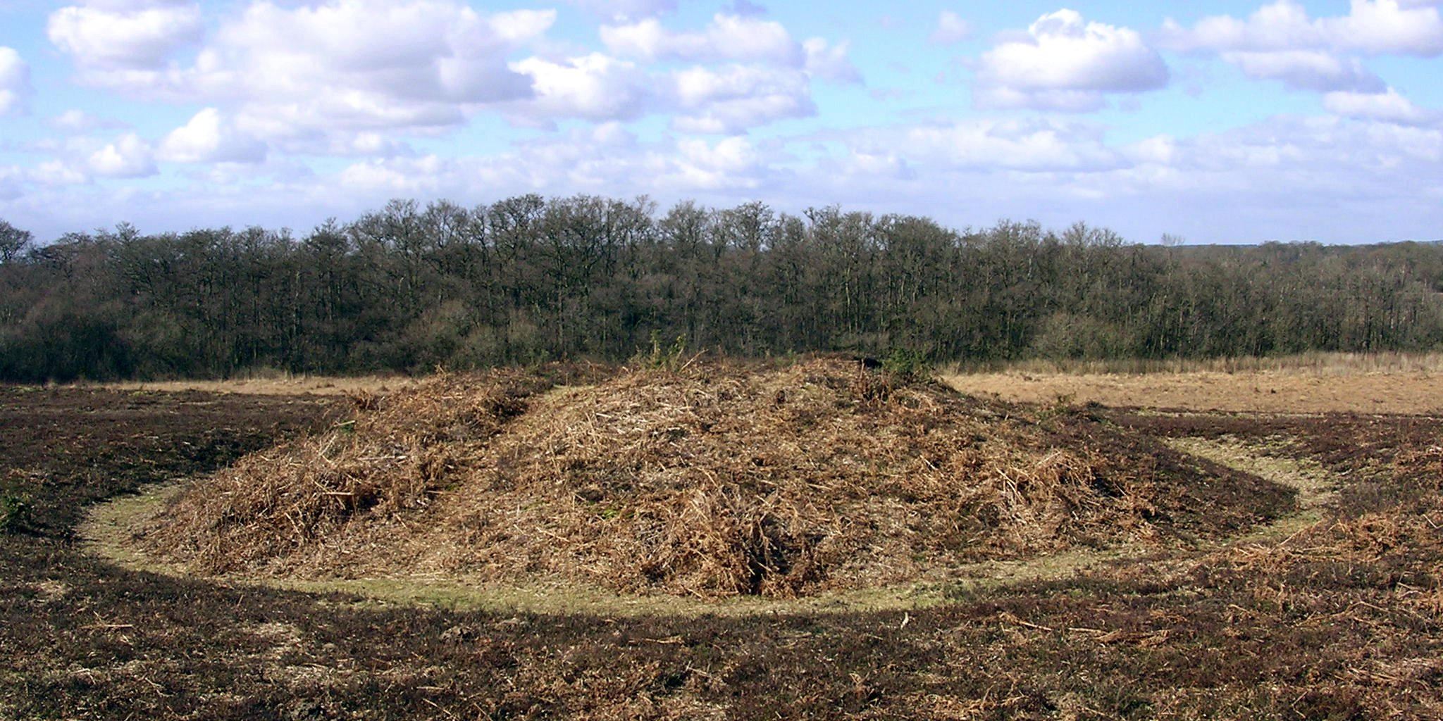 A bowl barrow on the ridge on Matley Heath, near Ashurst in the New Forest, Hampshire.